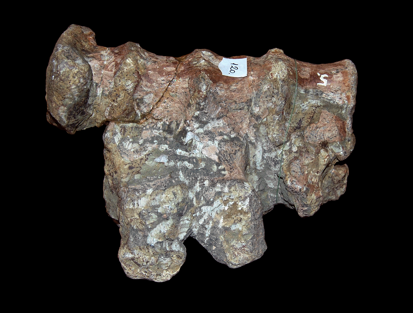 Sacrum of Zalmoxes, Deva Natural History Museum.